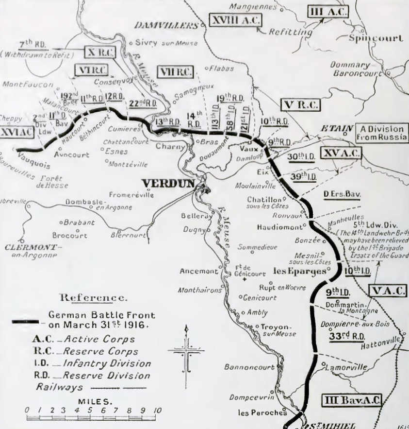 Diagram showing German dispositions at Verdun, 31 March 1916